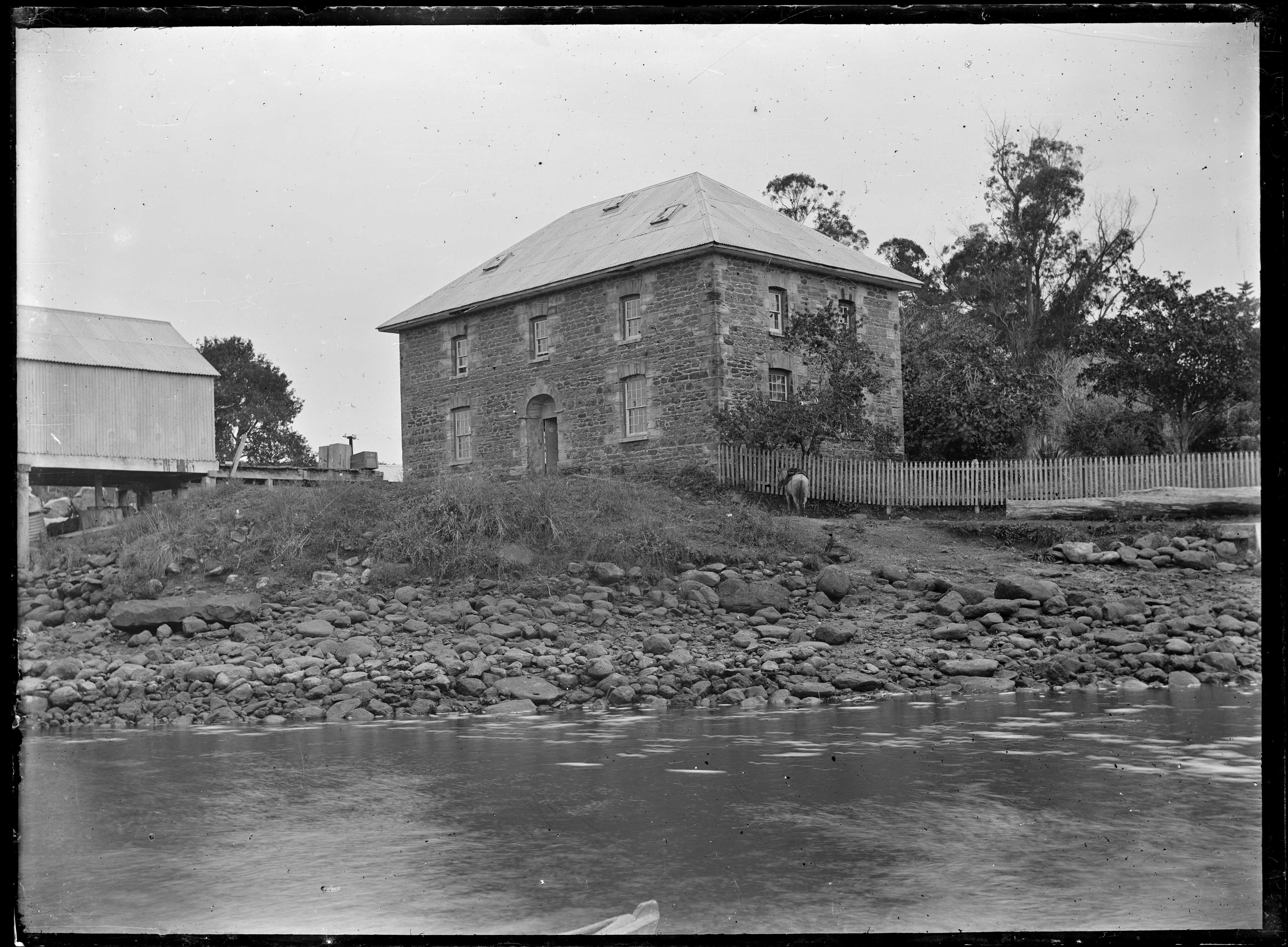 View of the Stone Store at Kerikeri, photographed by Albert Percy Godber in 1912. Dated from other images in Godber album Vol 110, p 173 (PA1-q-103).